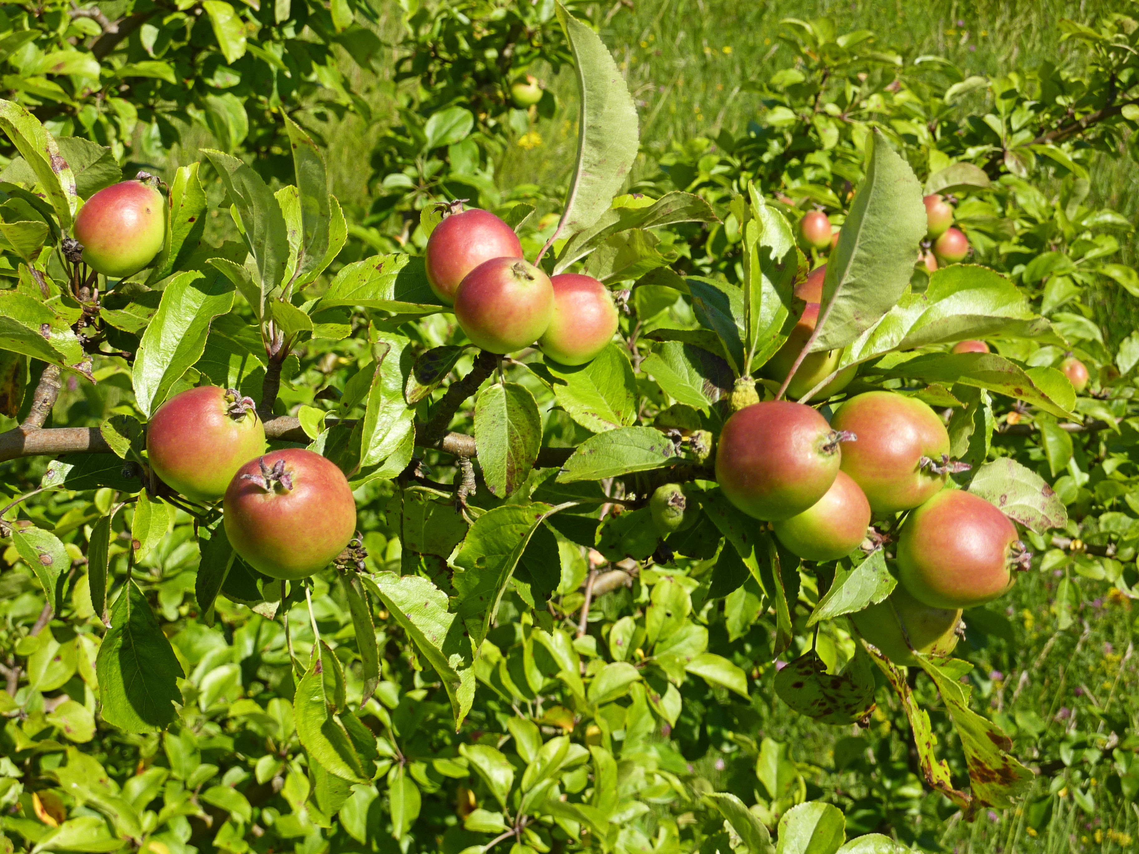 Ripe Crab Apples (Malus sylvestris) photographed in Barnack Hills & Holes, Lincolnshire (SSSI & NNR)